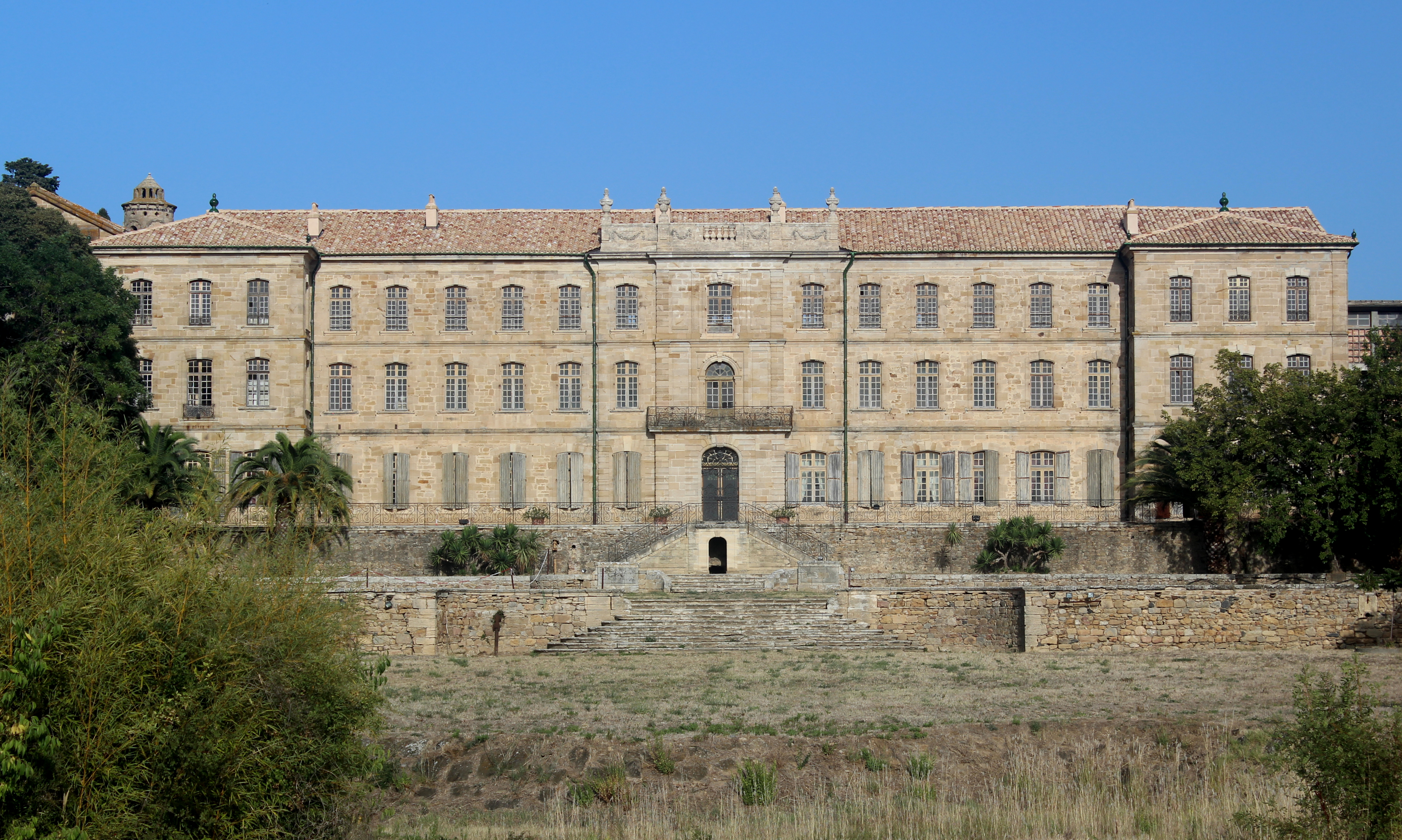 Western facade of the Château-Abbey Cassan built in mid-18th century by under Abbé Patz on the site of the earlier medieaval abbey outbuildings (excluding the 11th century chapel which was retained). The current owners took possession of the chateau in 2002 and are currently restoring it.[1]